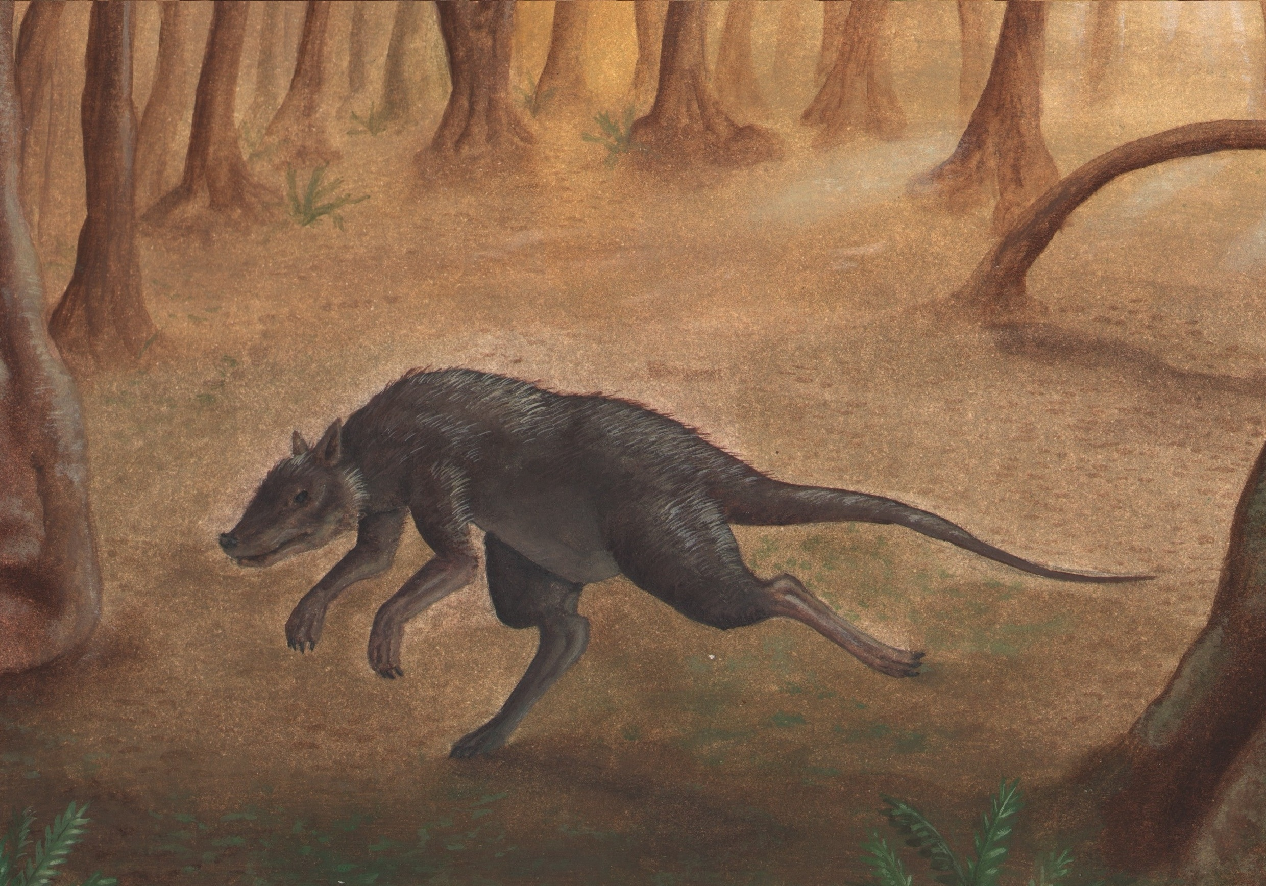 Scientific illustration of a hypothetical Leptictis, extinct genus of mammal euteri who lived in North America between the Upper Eocene and cation. Illustration with oil, pencil and digital retouching done on the advice of Alistair Ian Spearing Ortiz scientific translator. This image was provided to Wikimedia Commons as a contribution from an Art&Design School thanks of a collaboration between Llotja and Amical Wikimedia.